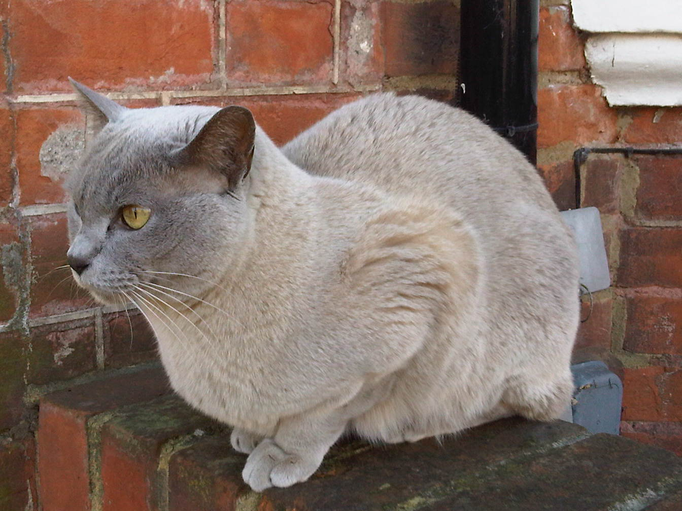 A British burmese cat in London, England.